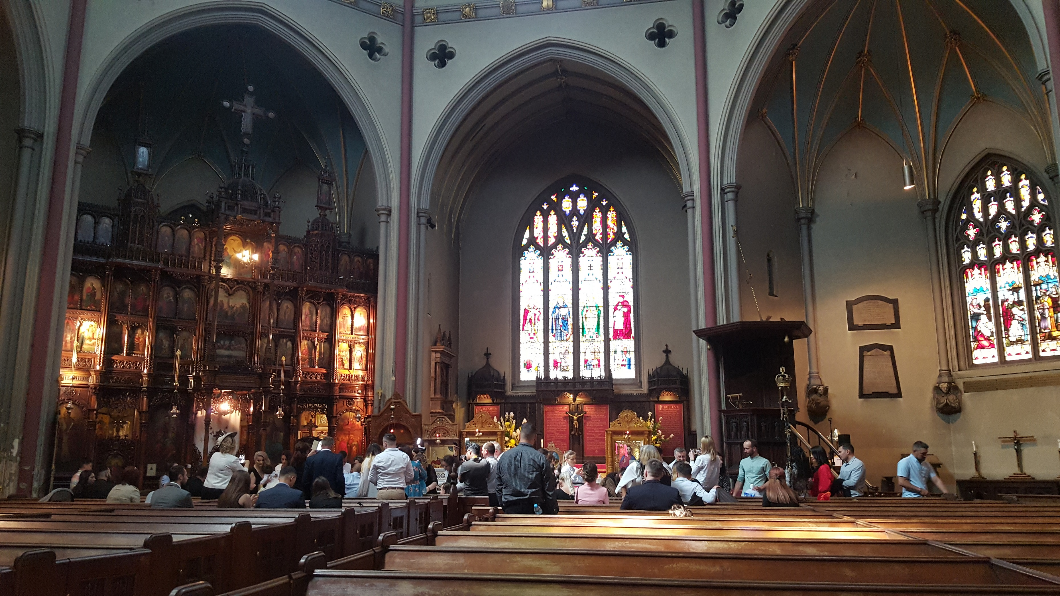 Here is a christening of a Roma baby whose family came from Turkey